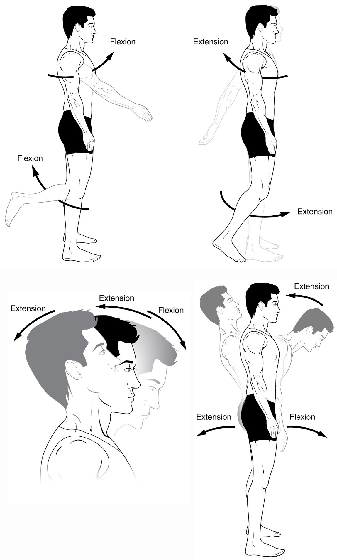 Flexion and extension.